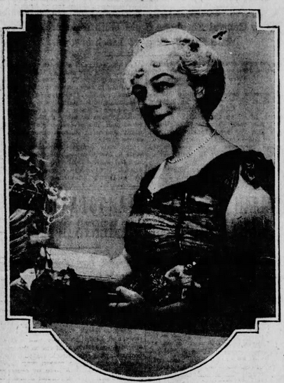 Marquise Clara Lanza